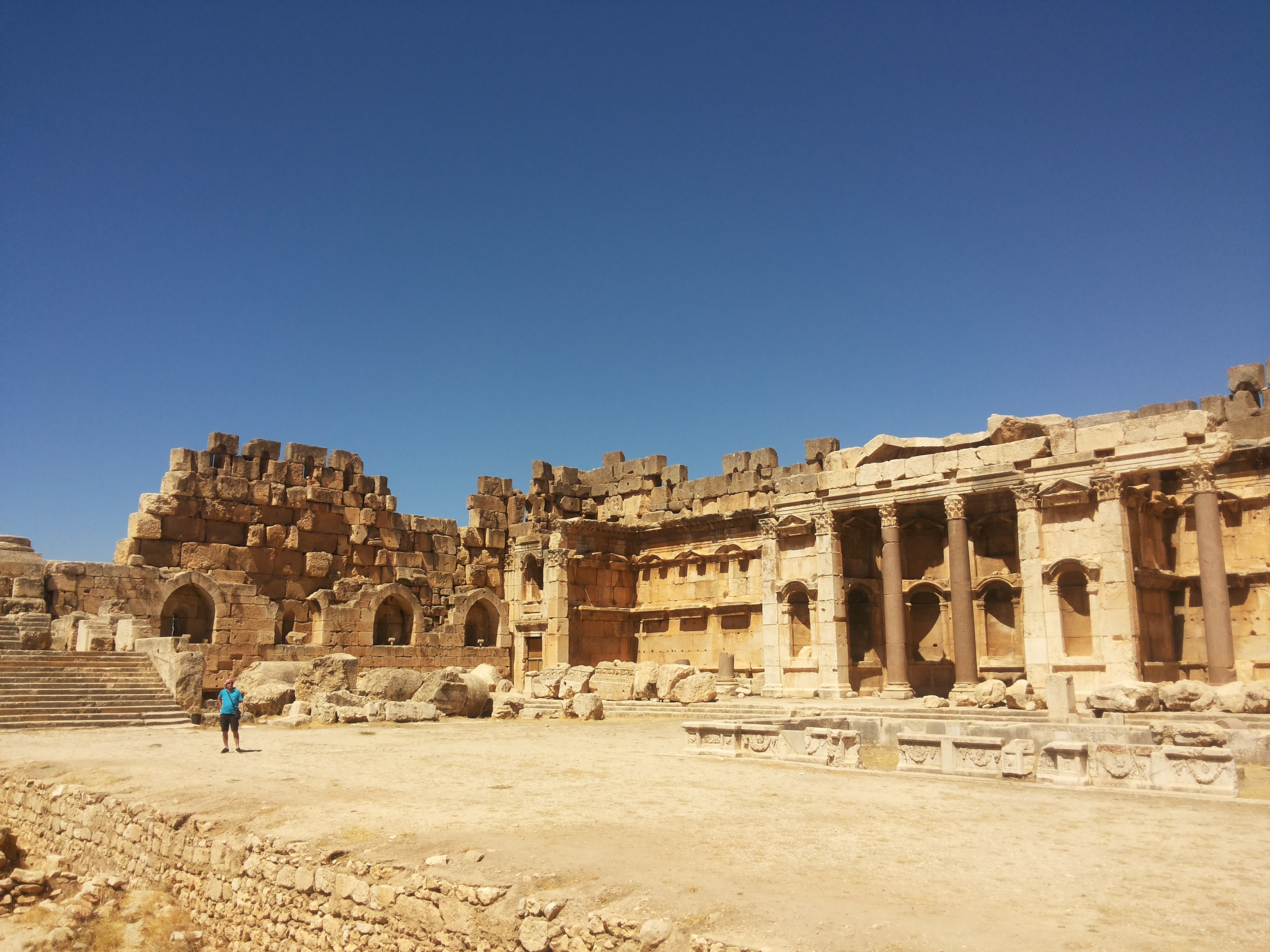 The great archaeological site of the roman period Baalbek in north Lebanon .